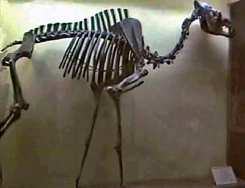 Titanotylopus at the Peabody Museum of Natural History, Yale